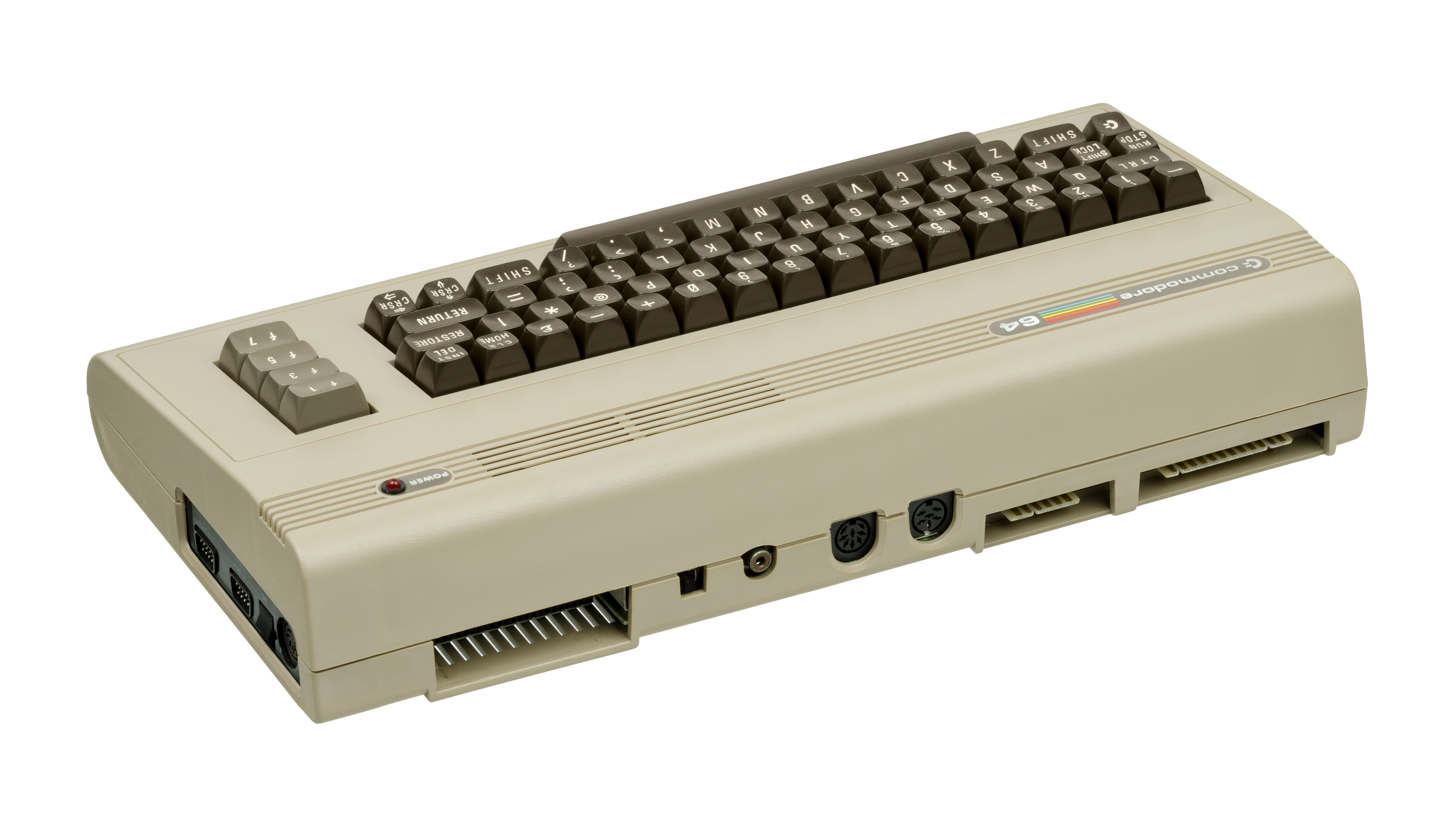 A Commodore 64, an 8-bit home computer introduced in 1982 by Commodore International. Its low retail price and easy availability led to the system becoming the market leader for three years. It remains the best-selling single personal computer model of all time.